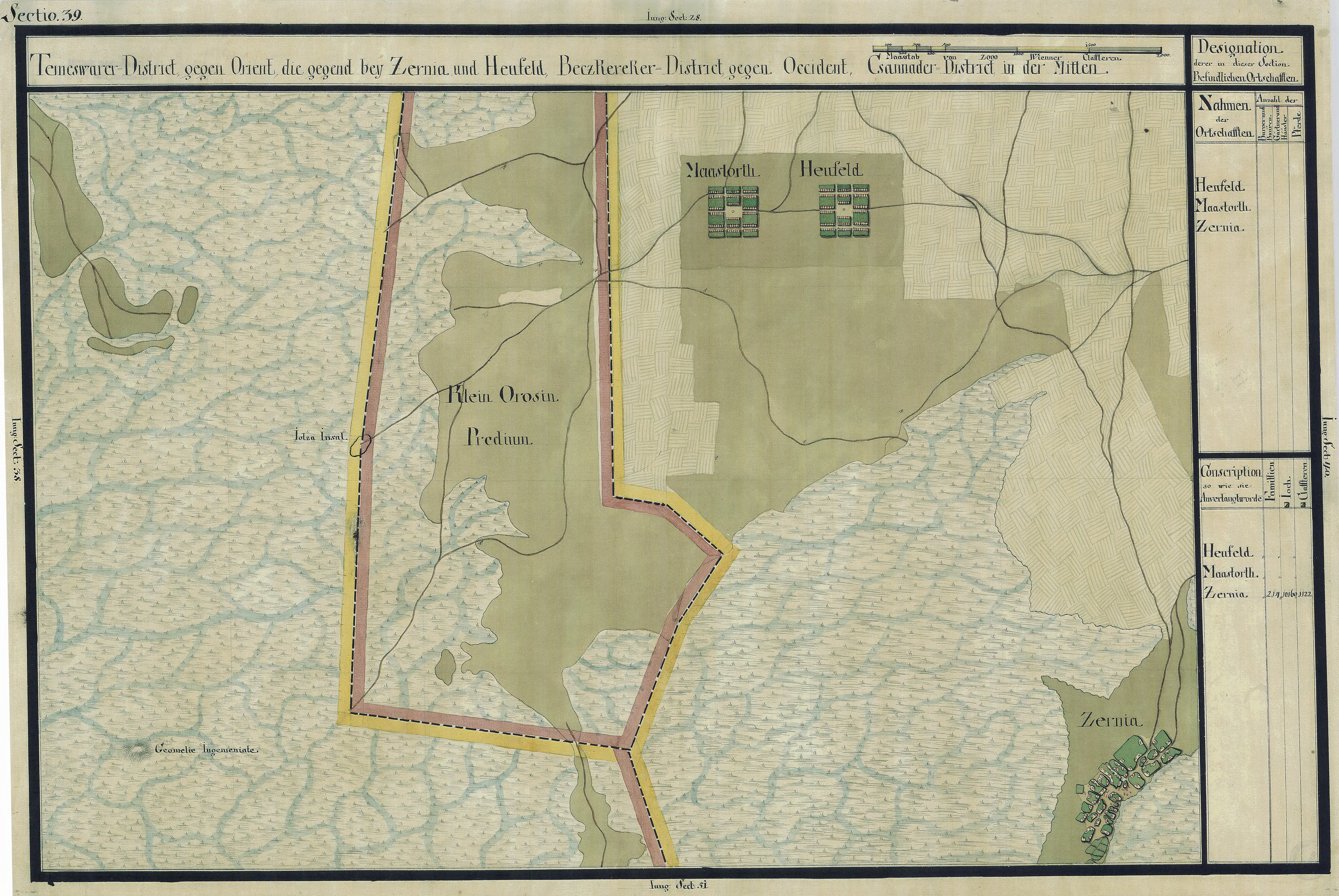 The Banat region in the cadastral maps: Josephinische Landesaufnahme, 1769-72. Josephinische Landaufnahme pg039